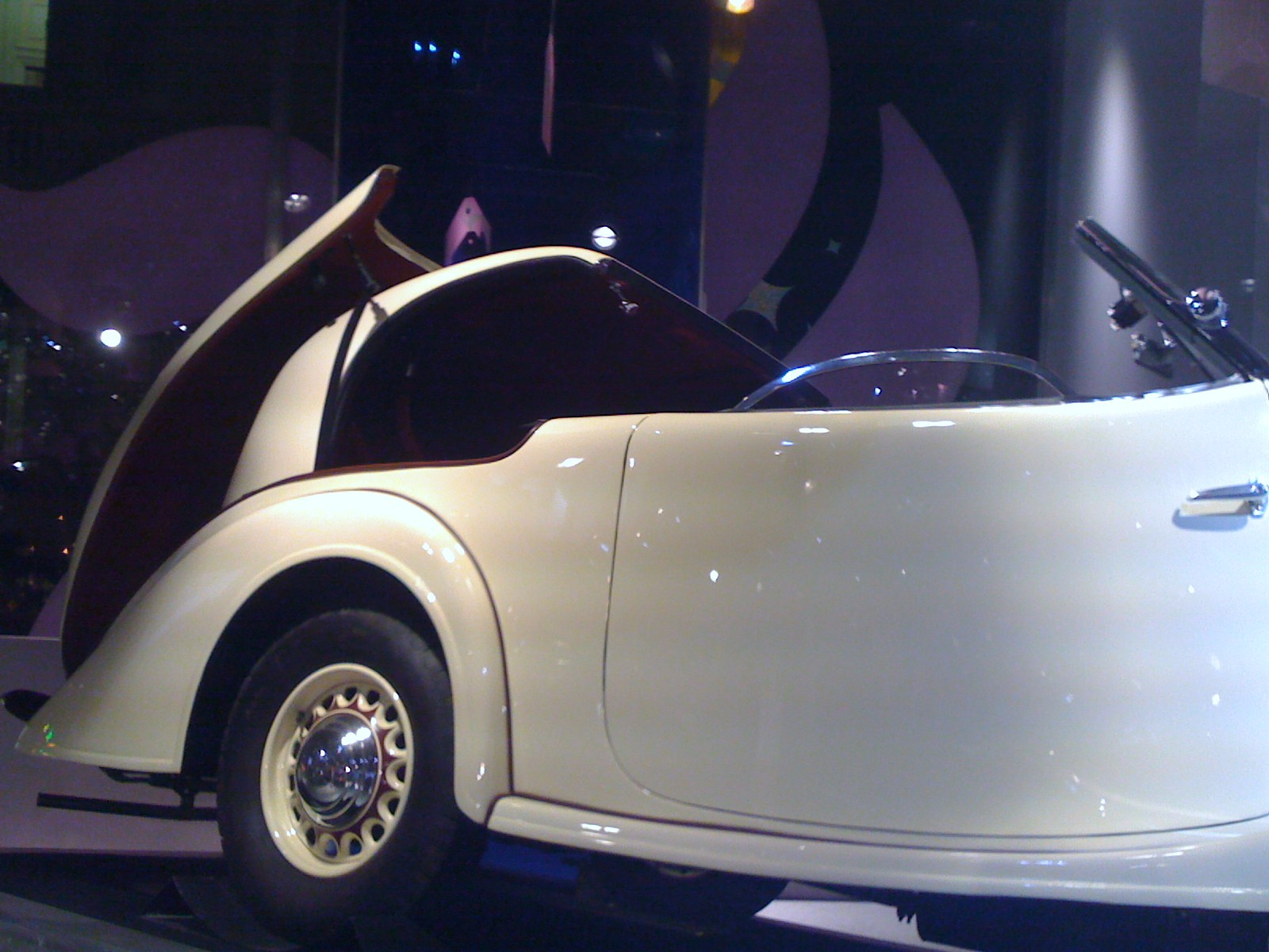 Peugeot 401 Eclipse